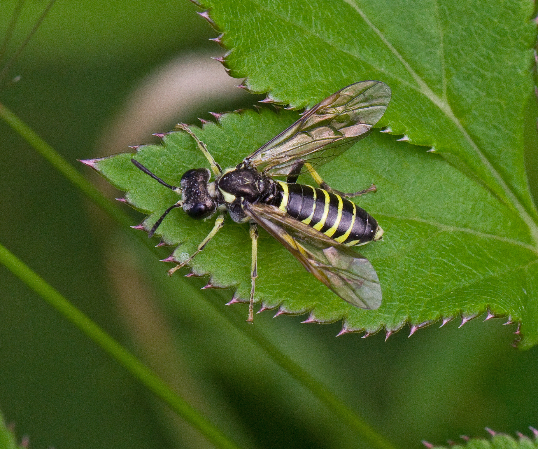 Female Tenthredo notha